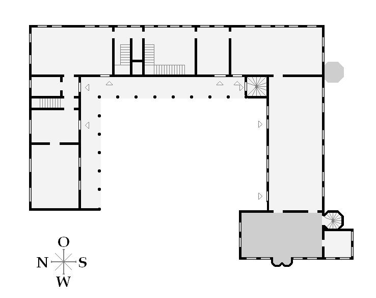 Groundplan of Reinbek Castle